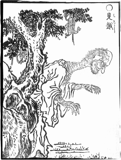 Mikoshi-nyūdō (見越, long-necked creature whose height increases as fast as you can look up at it) from the Gazu Hyakki Yakō (画図百鬼夜行)